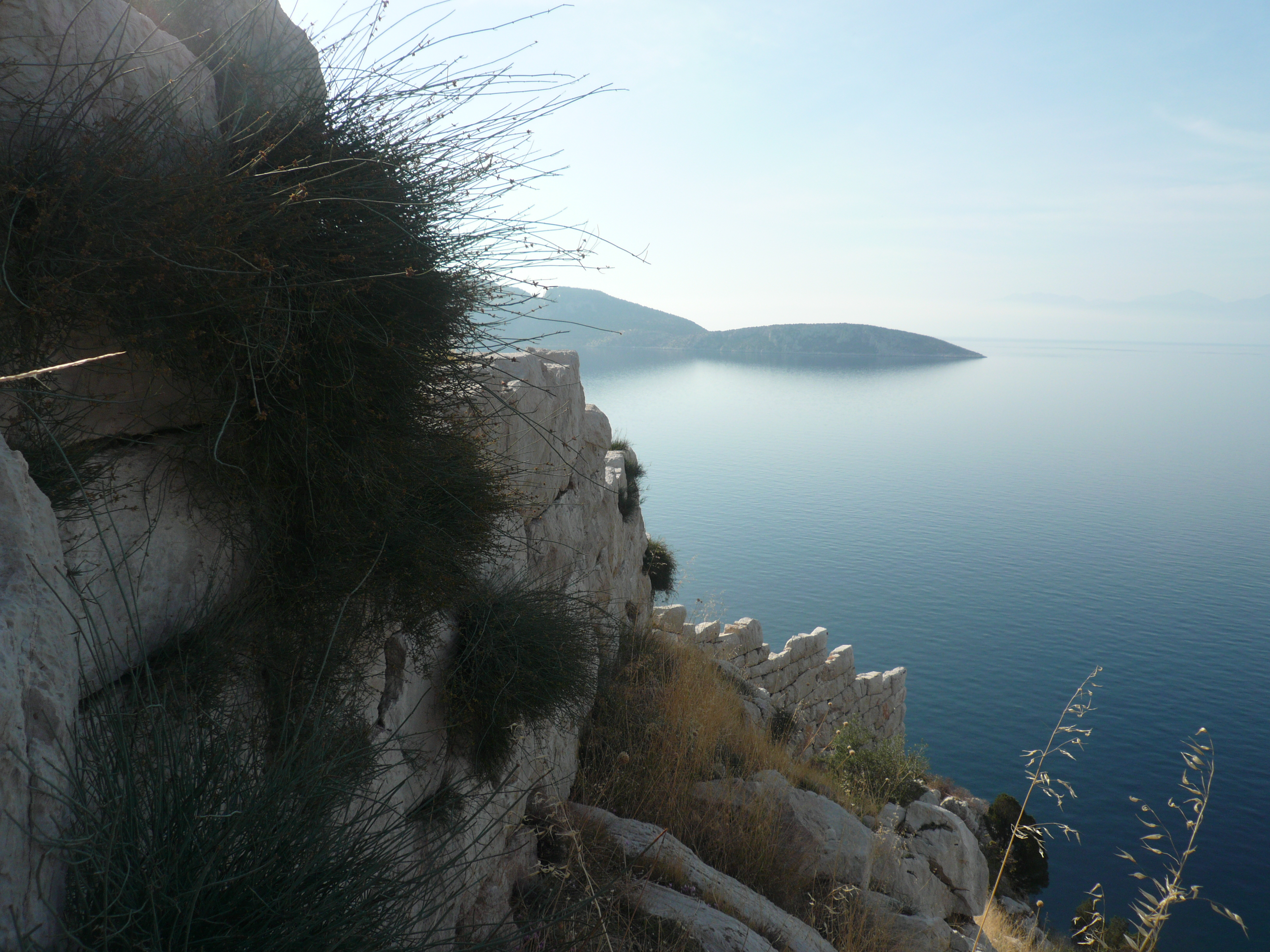 Acropolis of Medeon, Boeotia, Greece